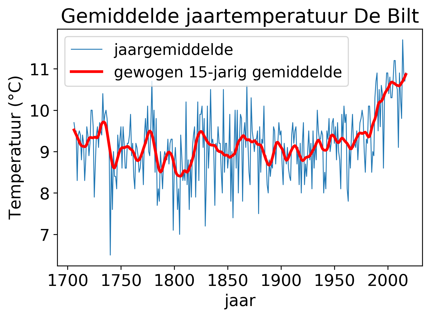 Yearly mean temperatures in De Bilt 1706-2017. Source: KNMI. Labrijn e.a., [1]